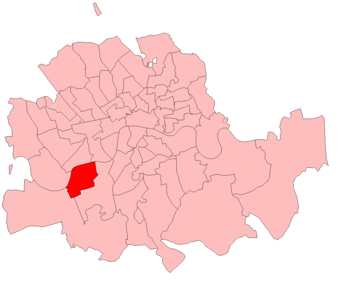 A map of Battersea constituency within the Metropolitan Board of Works area, as it existed from 1885 to 1918.